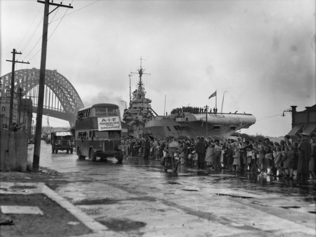 HMS, "FORMIDABLE", SYDNEY. 1945-10-13. RELATIVES AND FRIENDS WAVE AS THE CONVOY OF BUSES LEAVE CIRCULAR QUAY WITH PW LATELY DISEMBARKED FROM THE "FORMIDABLE" ON WHICH THEY RETURNED FROM MANILA. THE AIRCRAFT CARRIER CAN BE SEEN IN THE BACKGROUND.